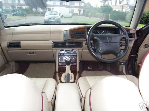 Interior of a 1998 Rover 820 Sterling, owned by Christopher Langridge. (Please not that the gearknob is not original).